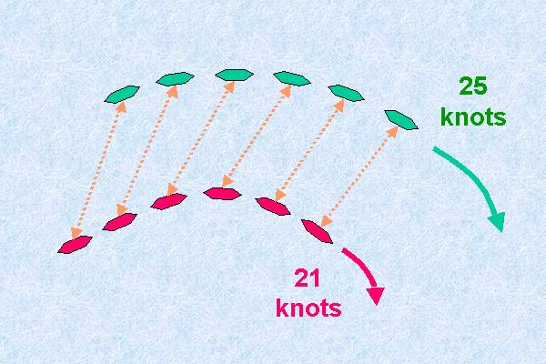 Wikipedia Fast Battleships article - Figure 1